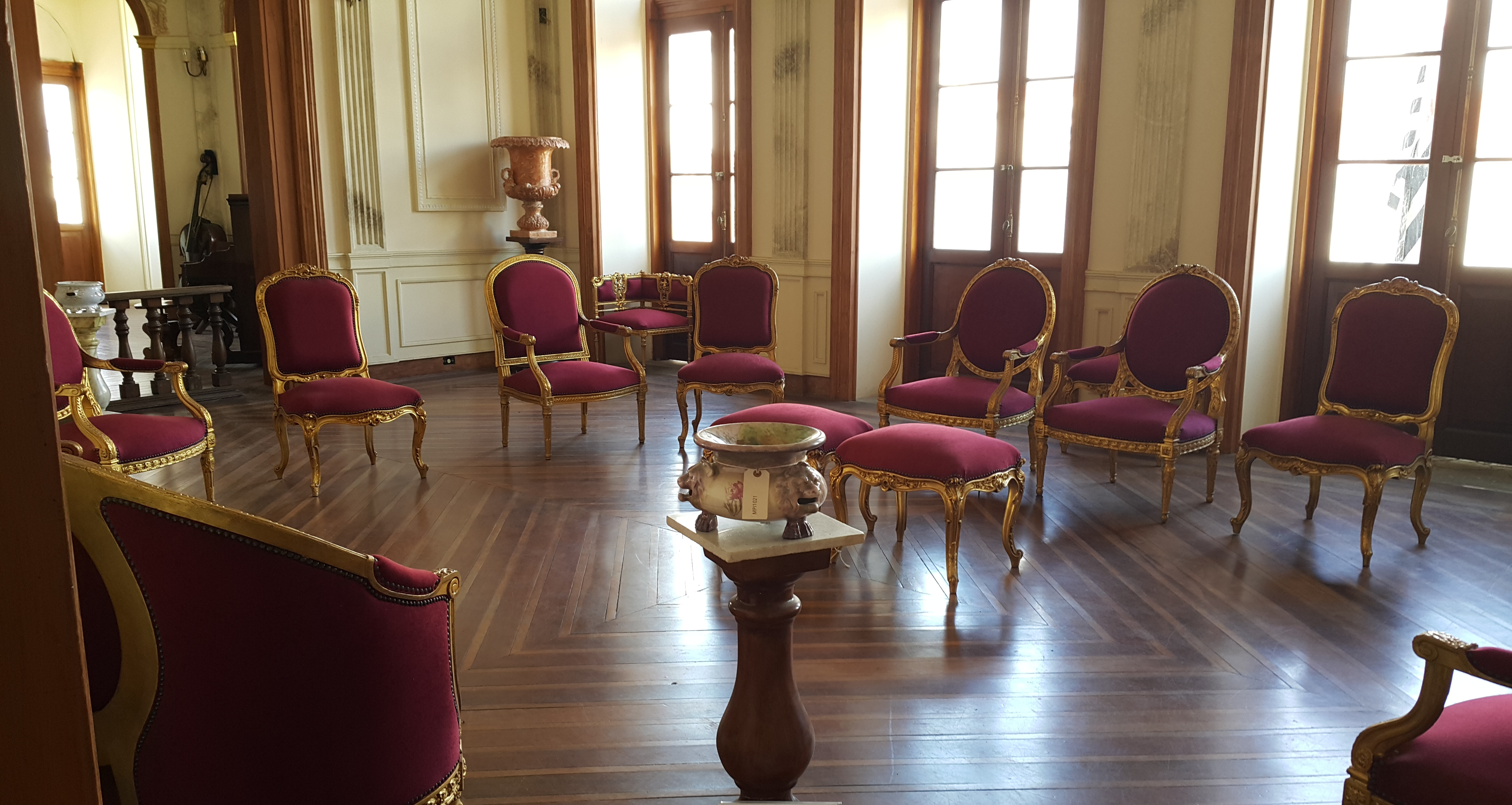 A room of Palacete Palmeira (currently known as Dom Pedro I and Dona Leopoldina Historical and Pedagogical Museum), with 19th and 20th century furniture, including chairs made with plaster, wood and fabric, and plated with gold and velvet. Building listed by CONDEPHAAT in Pindamonhangaba city, in São Paulo state, Brazil. Cultural property Palacete Palmeira, Pindamonhangaba, São Paulo (state), Brazil Q67103248, P727: CONDEPHAAT ID: palacete-palmeira